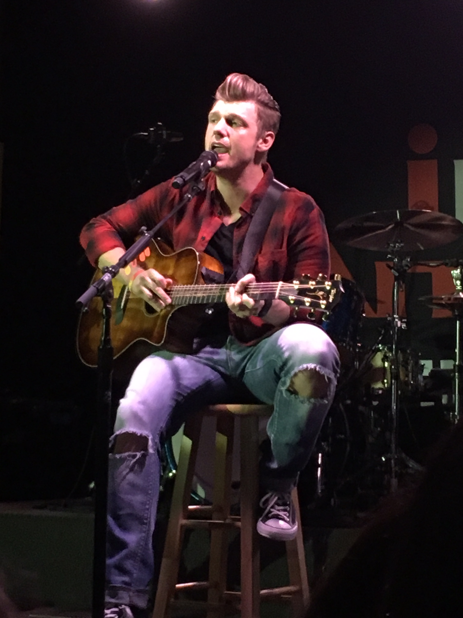 Nick Carter performing at iPlay America in Freehold, NJ in March 2016.